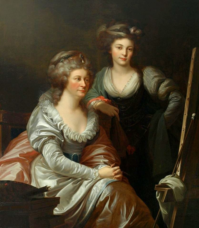 Portrait of Józefina Amalia Potocka and her daughter Pelagia